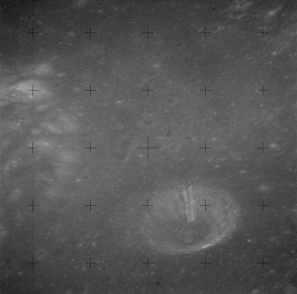 Oblique view of Menelaus A crater (lower right) and vicinity, west of Menelaus crater. The brightness and contrast have been altered from the original.